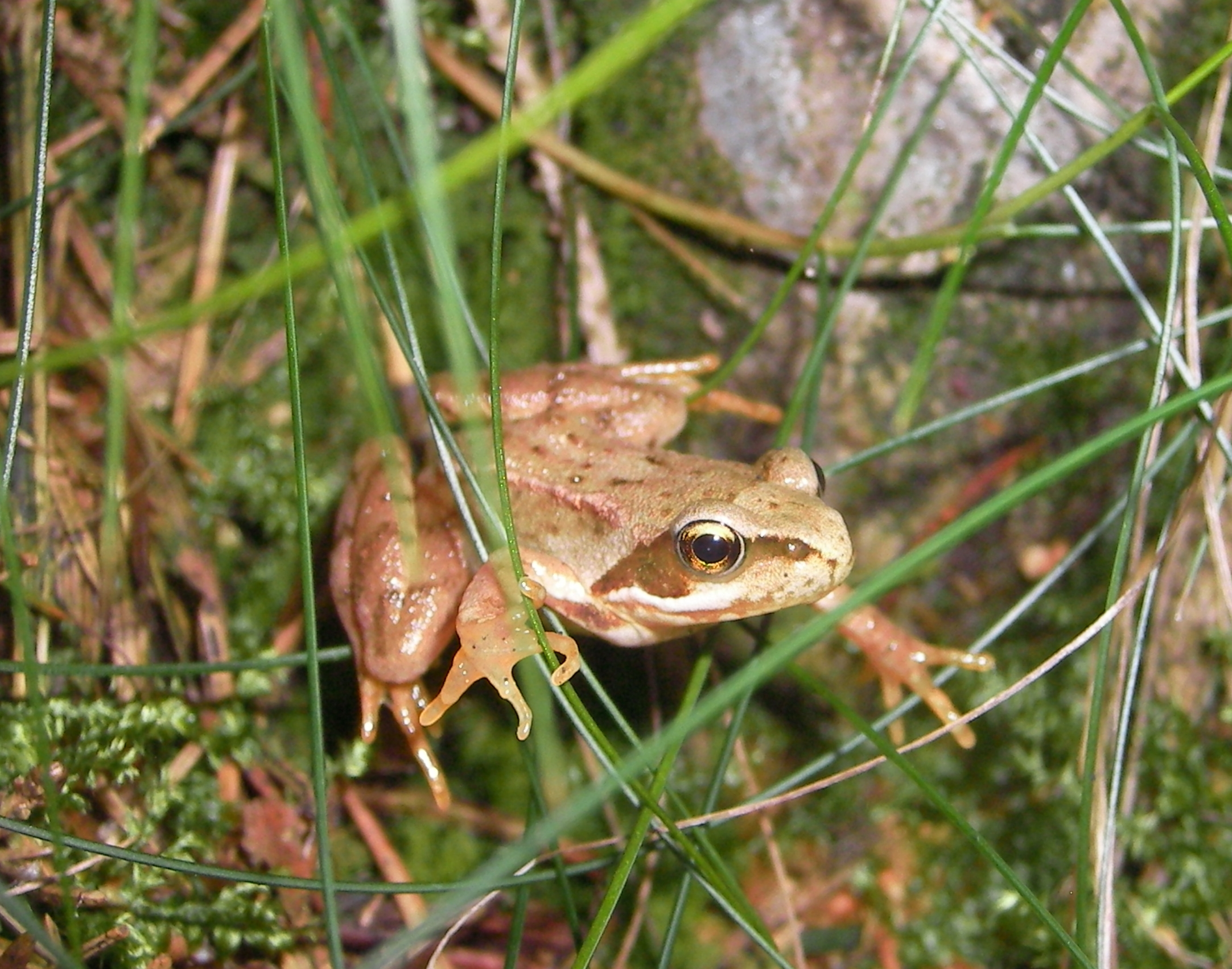 gras frog, Rana temporaria